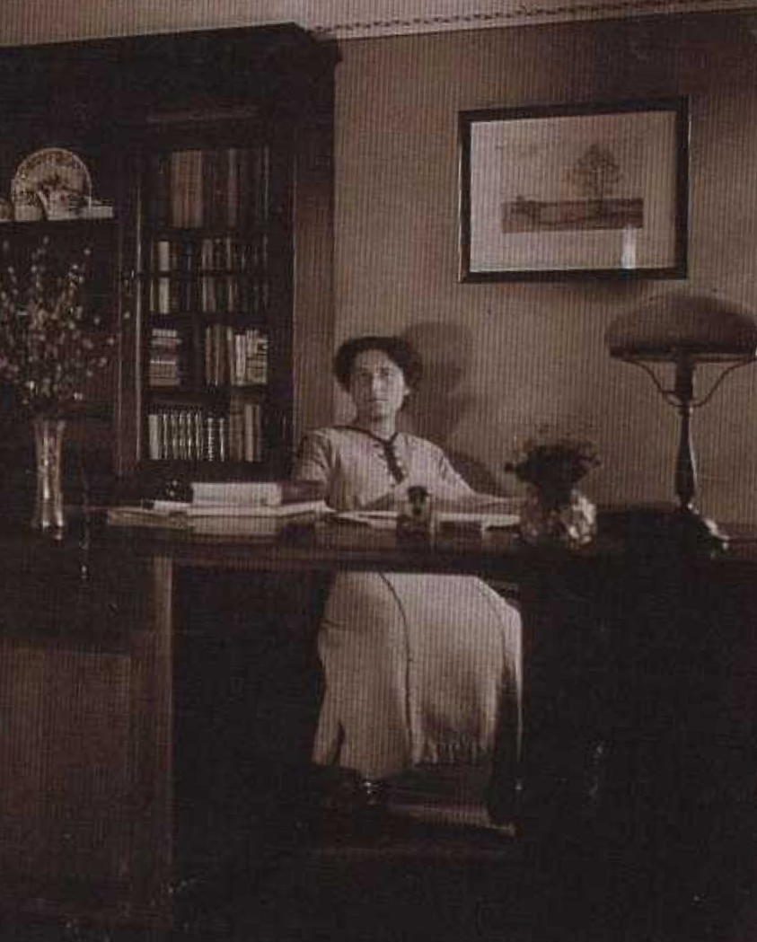 Charlotte Landé, aka Lotte Landé, Lotte Czempin, Lottie Champaign, Lotte Champain, (* 25 May 1890 in Elberfeld, Rhineland, Germany; † 19. September 1977 in Oberursel (Taunus), Hesse, Germany), city physician of Frankfurt am Main (1928 – 1933). Photo of 25 May 1918 (her 28th birthday) made in Kaiserin-Auguste-Victoria-Haus, Berlin, Germany